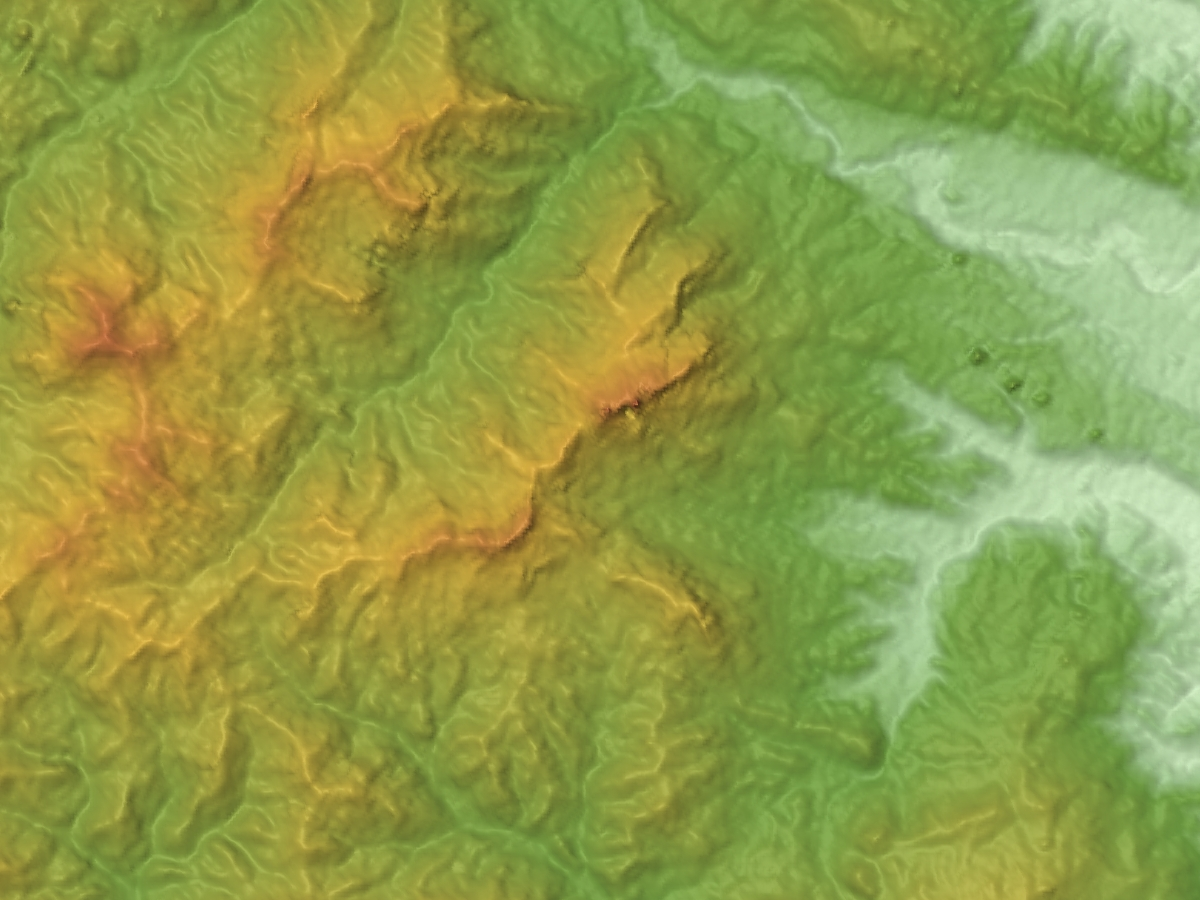 Around Mount Myōgi in Gunma Prefecture, Honshu, Japan.